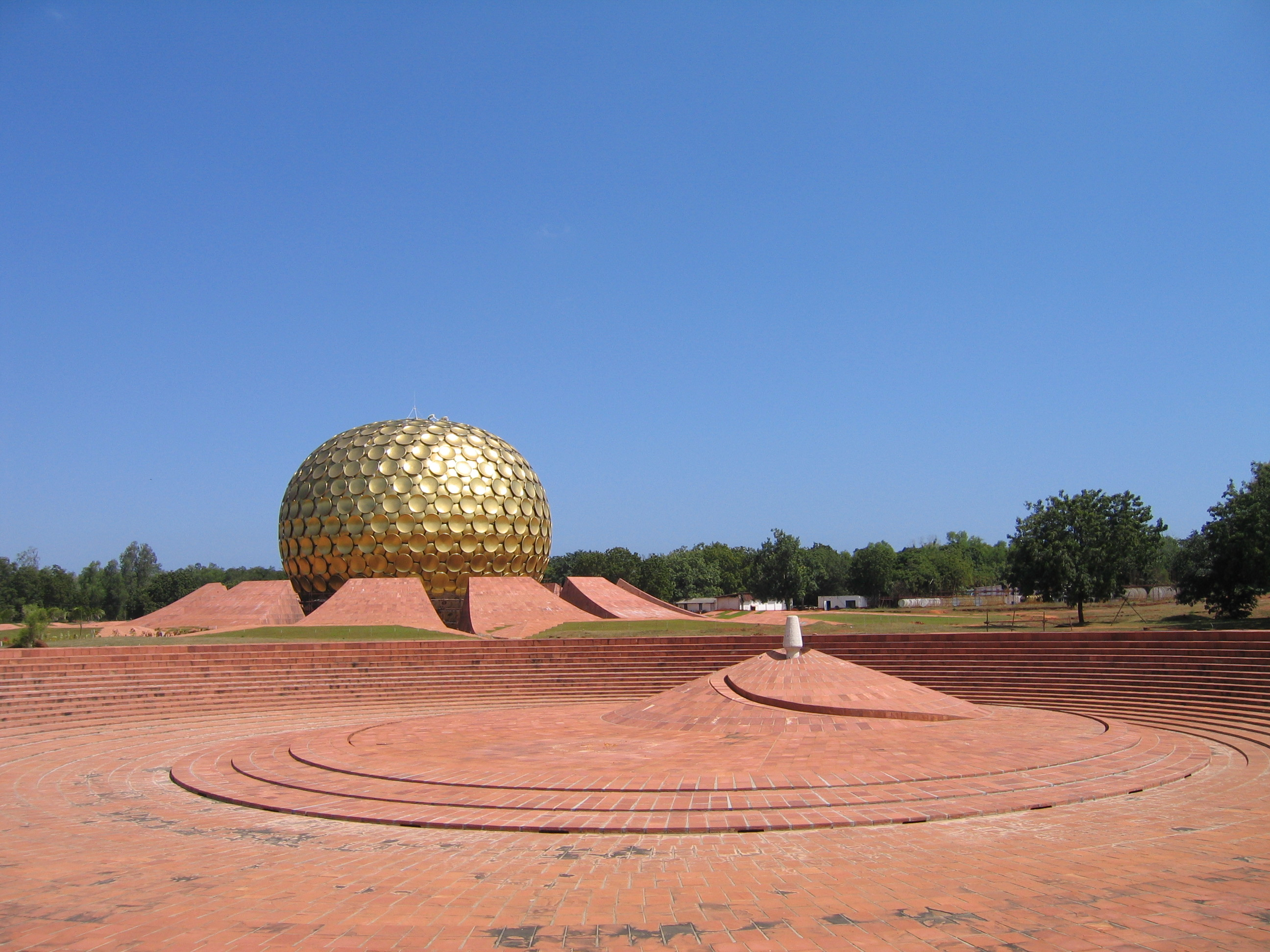 Matra Mandir in Auroville